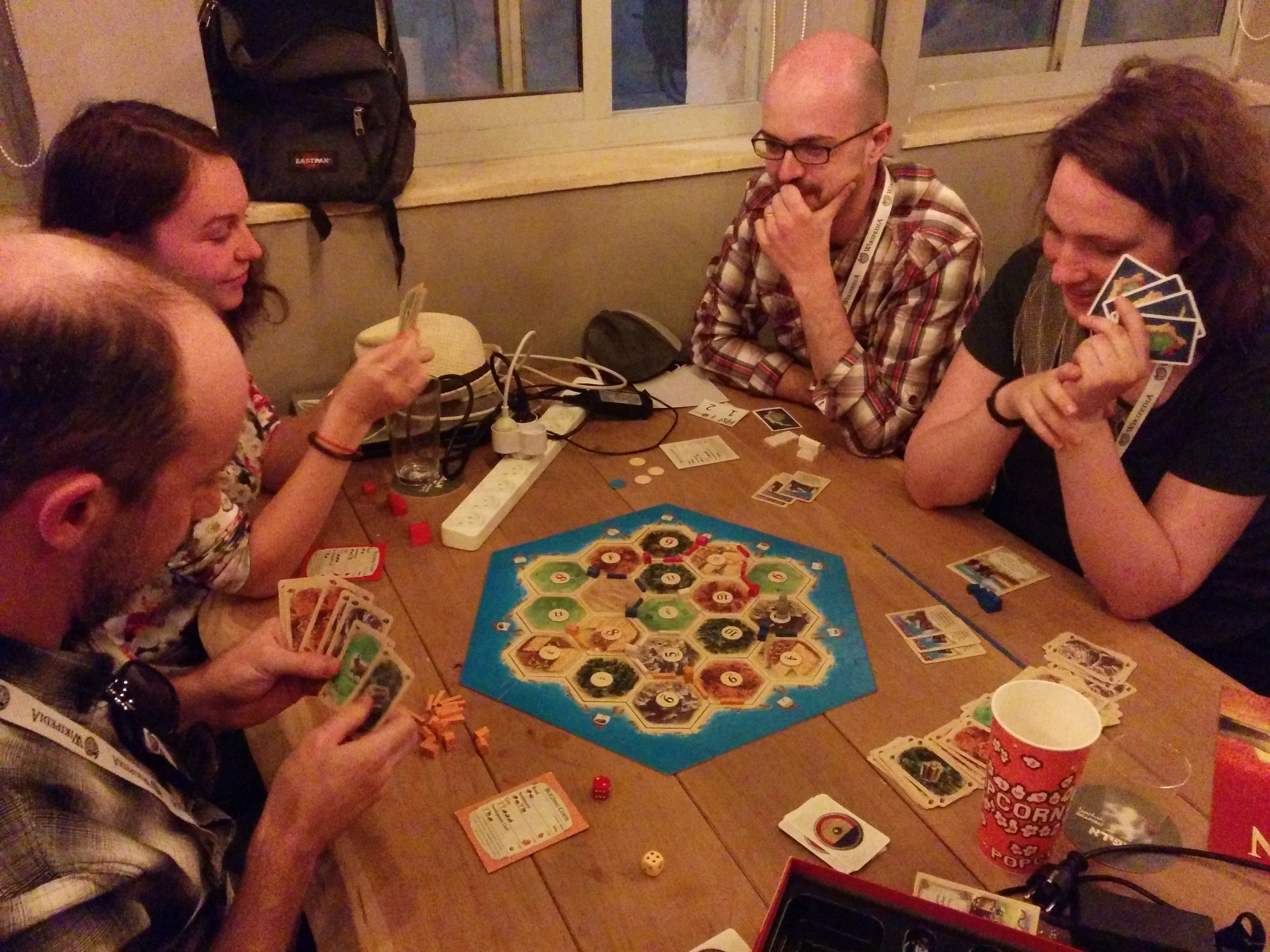 There was also time for Catan.